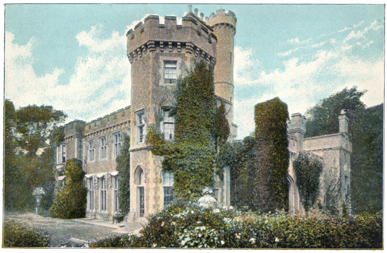 STEEPHILL CASTLE, VENTNOR.—Within a mile of Ventnor, and close to the Town Station of the Isle of Wight Central Railway, is Steephill Castle with its beautiful and extensive grounds. From every point outside the Castle is well embowered in trees, only the tower being visible. It was built in 1835 by I. Hambrough, Esq. The architectural features are well displayed from inside the garden. The view from the tower is very fine. In 1874 the Empress of Austria stayed here, and hunted with the Isle of Wight hounds during her visit. It is occupied at the present time by Mr. and Mrs. Morgan Richards, the parents of "John Oliver Hobbes" (Mrs. Craigie), who is a frequent visitor. The castle was demolished in 1963